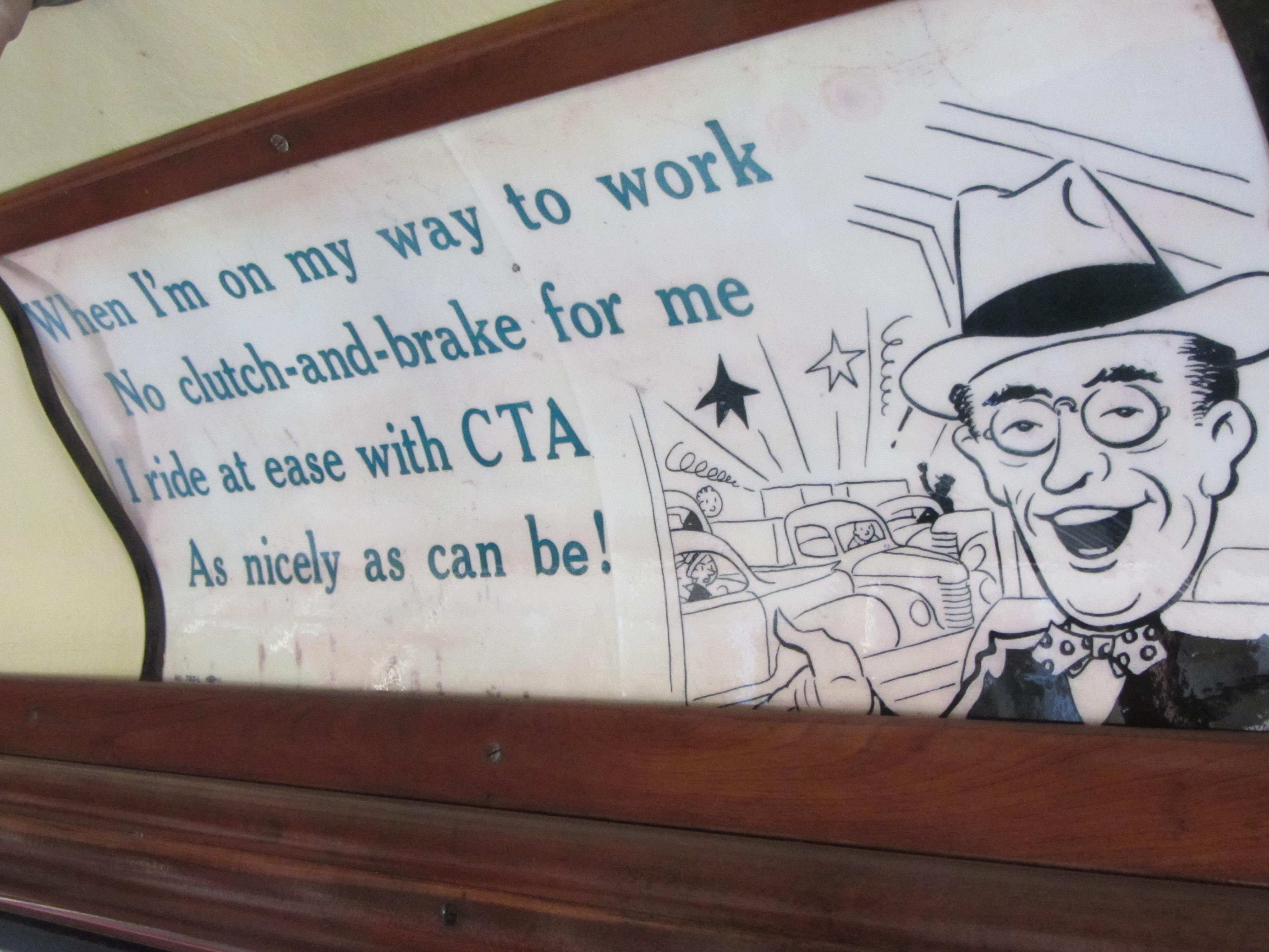 Car cards inside Chicago Transit Authority streetcar #225